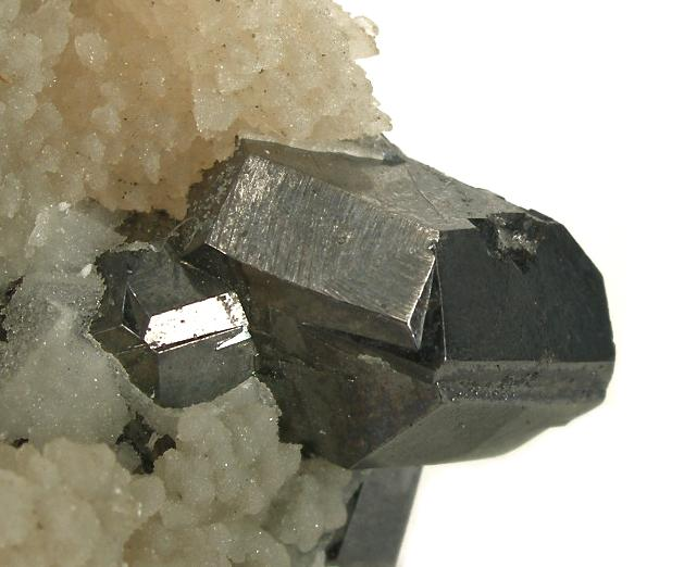 Fluorite Locality: Gibraltar Mine (incl. "Cave of Swords"), Naica, Municipio de Saucillo, Chihuahua, Mexico (Locality at ) Size: small cabinet, 6.7 x 6.0 x 4.5 cm Fluorite Great aesthetics highlight this combination specimen with a matrix of fluorite. Aesthetically perched high on the galena is a single, glassy and gemmy, cuboctahedron of emerald-green fluorite, measuring 3.5 cm across. Wreathlike clusters of drusy, ivory-colored calcite surround the fluorite and accent it. The balance of the fluorite with the galenas also adds to make this a wonderful combination specimen for the locale, with most of its classic species on one piece. Ex. Dr. Miguel Romero Collection.